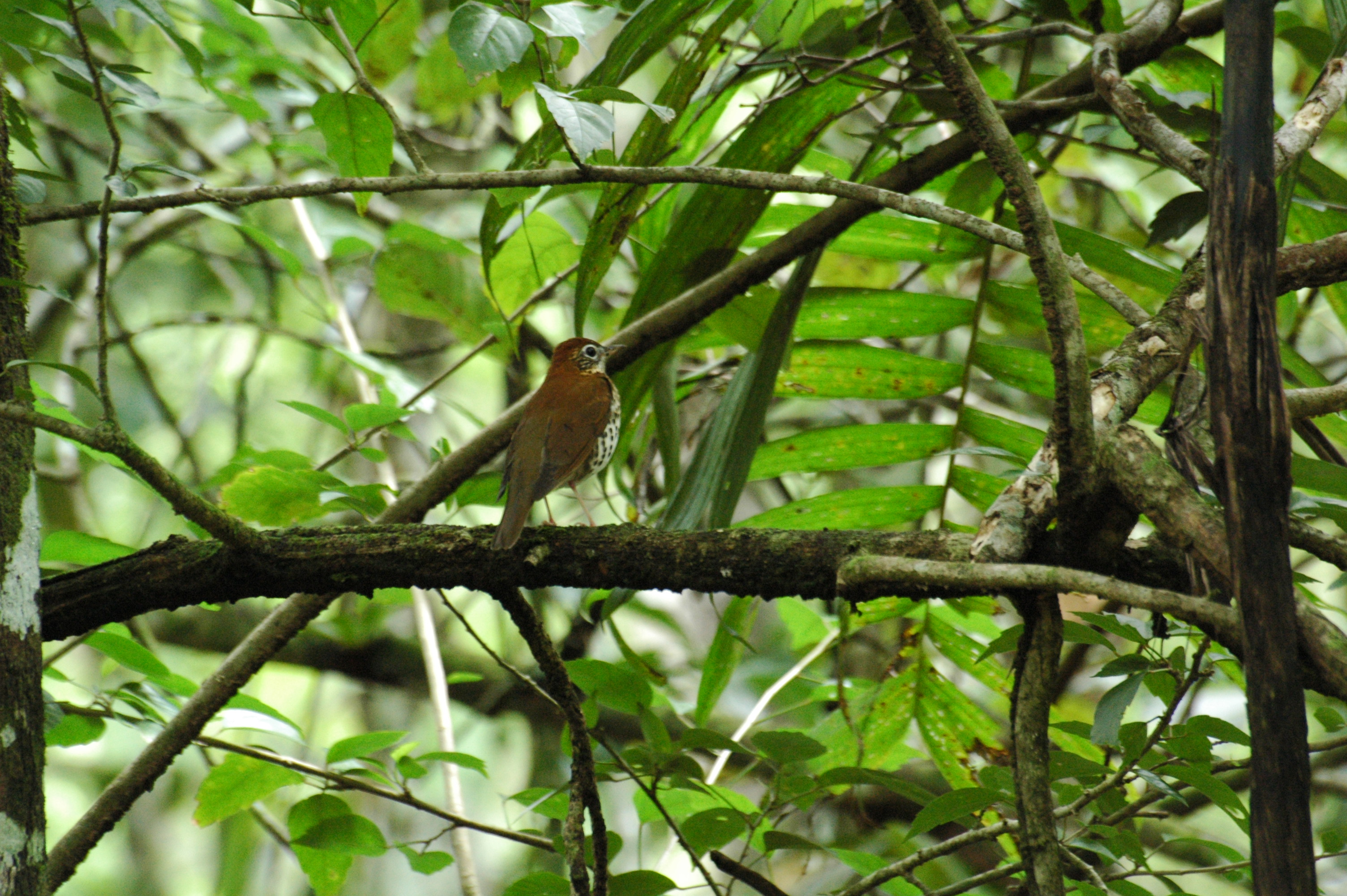 Lil' Wood Thrush (Hylocichla mustelina) in Blue Hole National Park, Belize